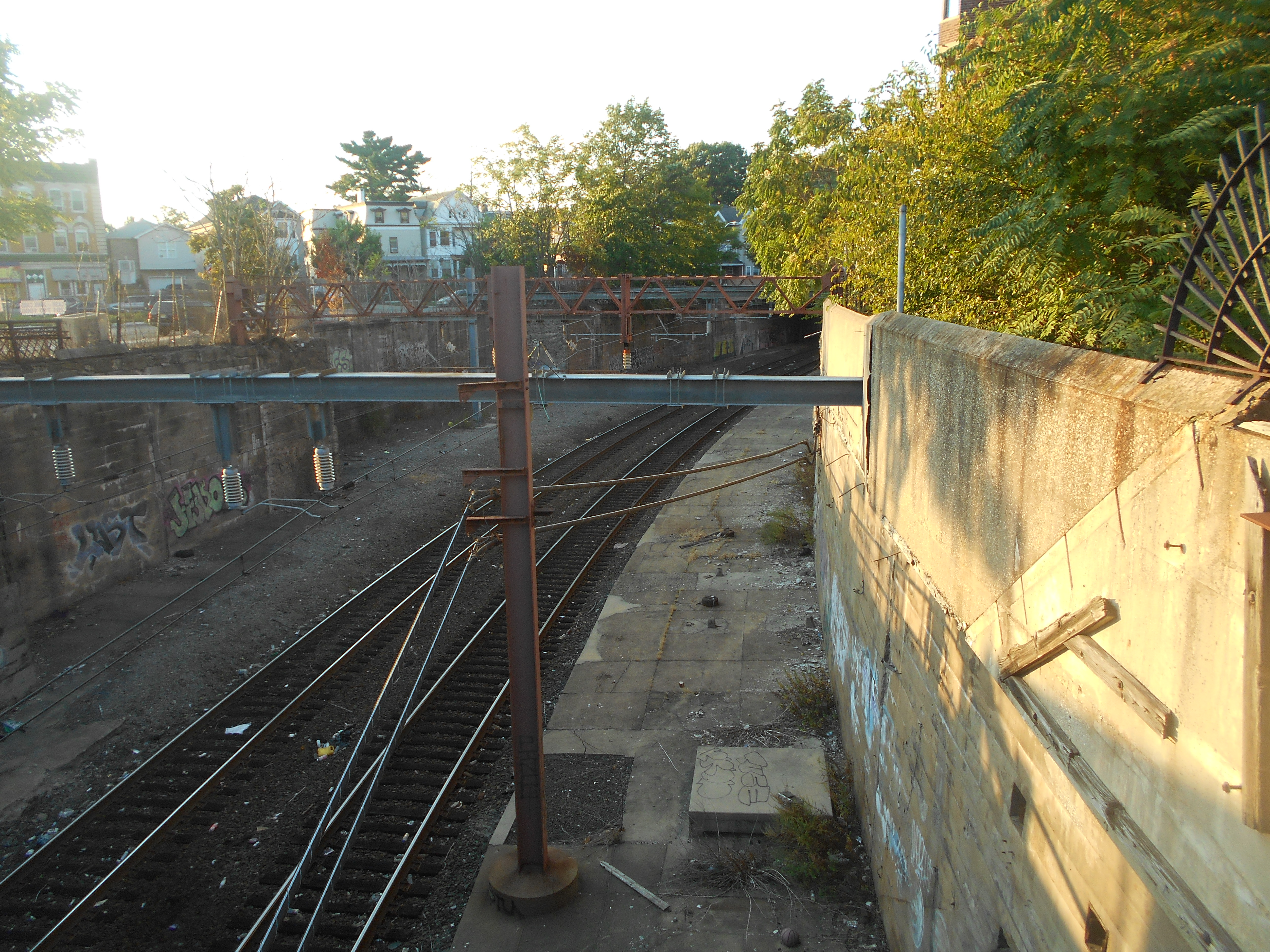 The remnants of the Roseville Avenue station's Montclair Branch platform in the Roseville section of Newark, New Jersey in September 2014.